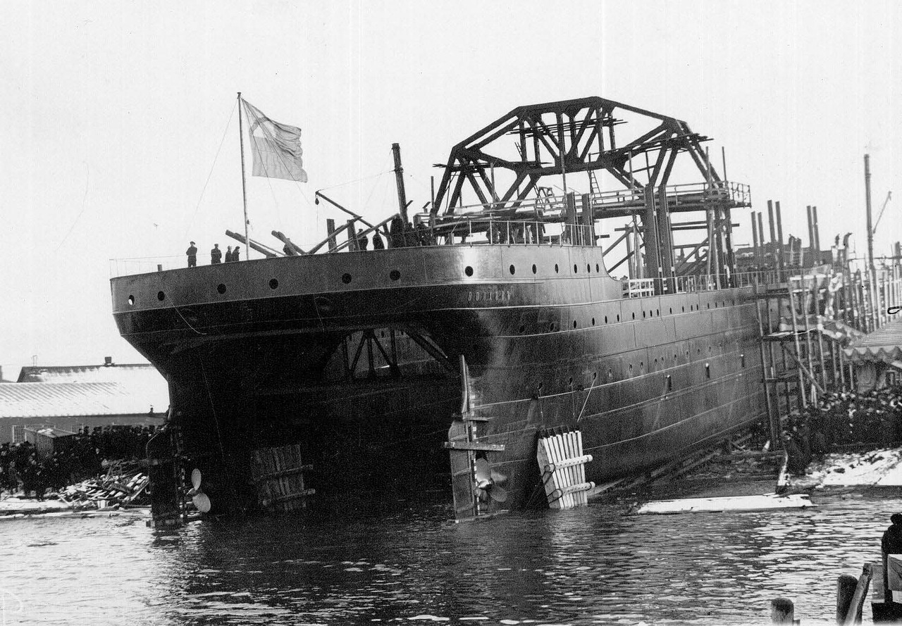 Volkhov launched at Putilovskaya Verf in Saint Petersburg 17 November 1913